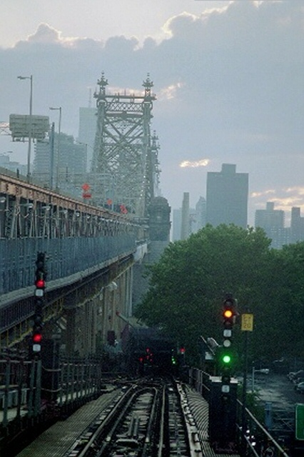 The BMT 60th Street Line tunnels under the East River just one block north of the Queensboro Bridge. It connects the BMT Broadway Line in Manhattan to the Queensboro Plaza and Queens Plaza stations in Long Island City, Queens. Original plans proposed an upgrade of already existing elevated tracks running over the bridge. But it was determined that the bridge would not be able to handle heavy subway trains; thus, the tunnel was constructed to the north.The original el ceased operation in 1942.